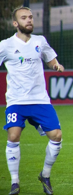 Vladislav Masternoy with FC Fakel Voronezh in a game against FC Krasnodar-2.